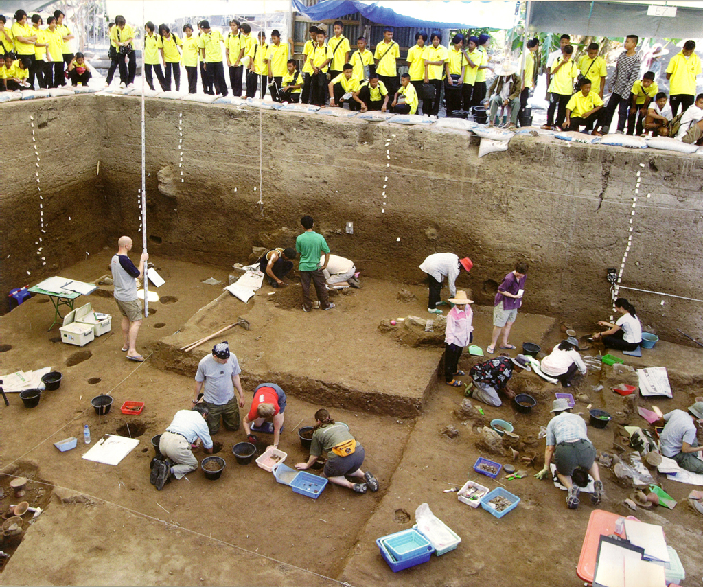 ban non wat